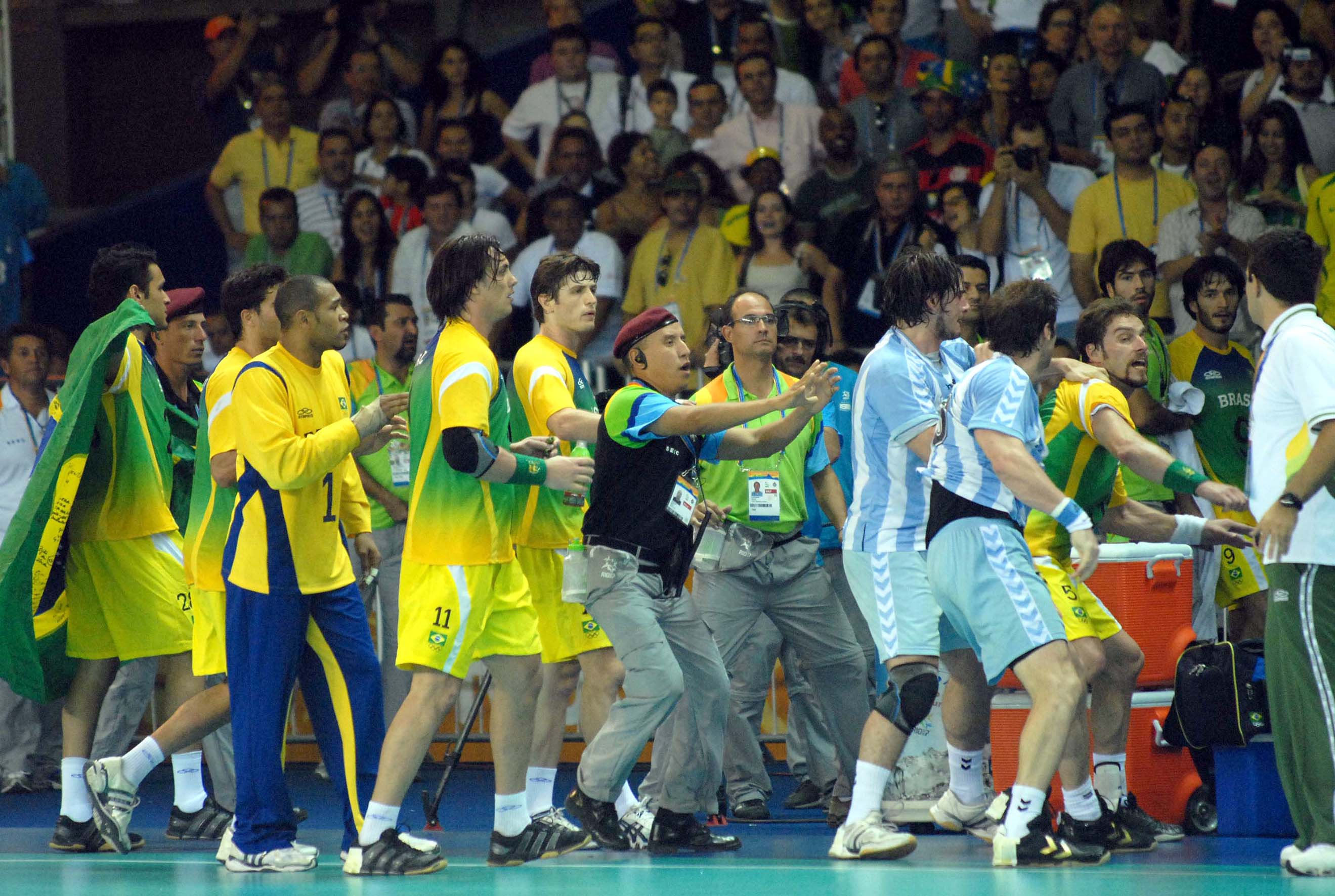 Fight between Brazilian and Argentinean athletes during men's handball gold medal match - Rio 2007